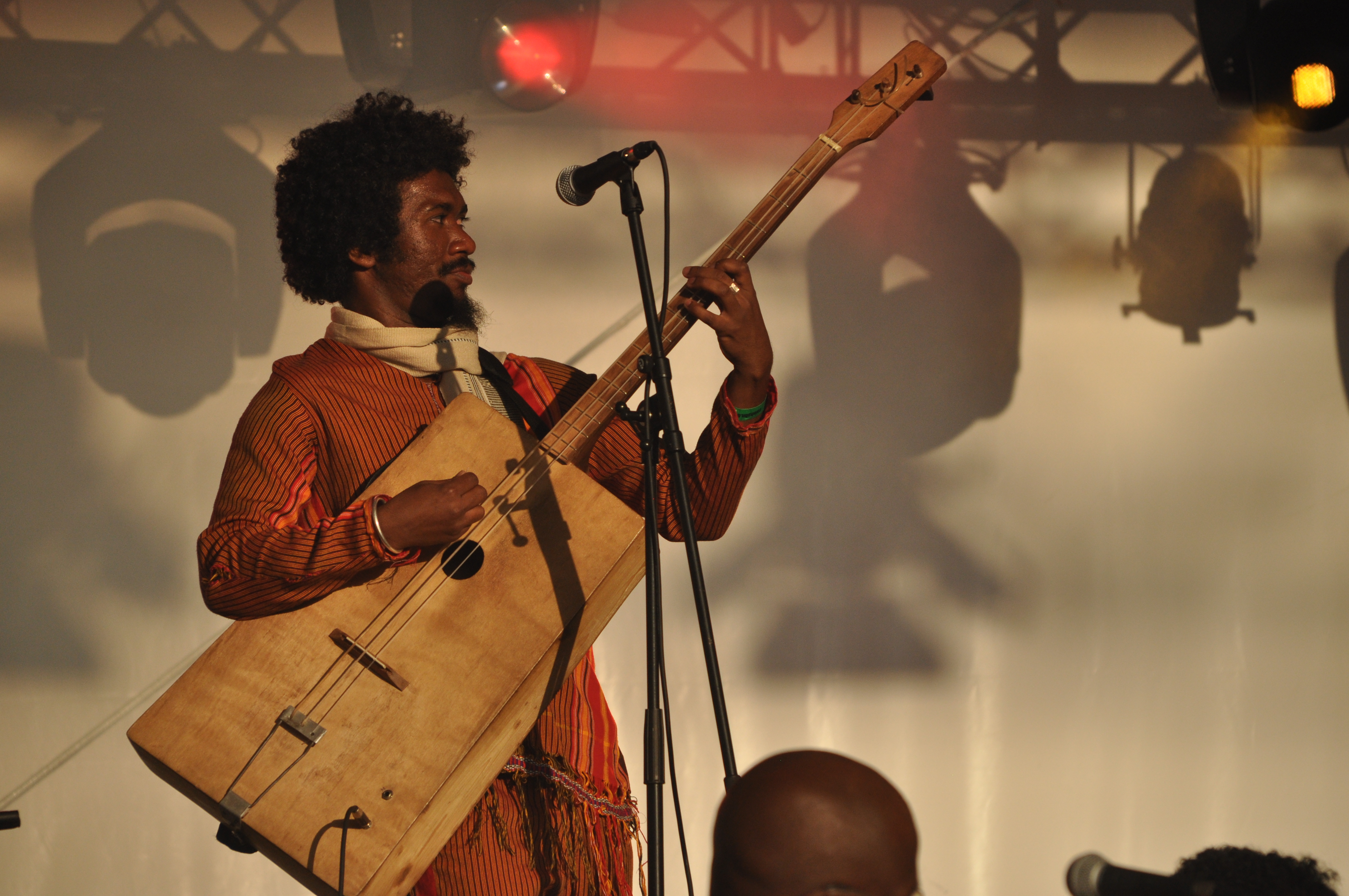 Ny Malagasy Orkestra (Madagascar), appearence at the 11th world music festival "Horizonte" 2013 at the fortress Ehrenbreitstein, Koblenz, Germany